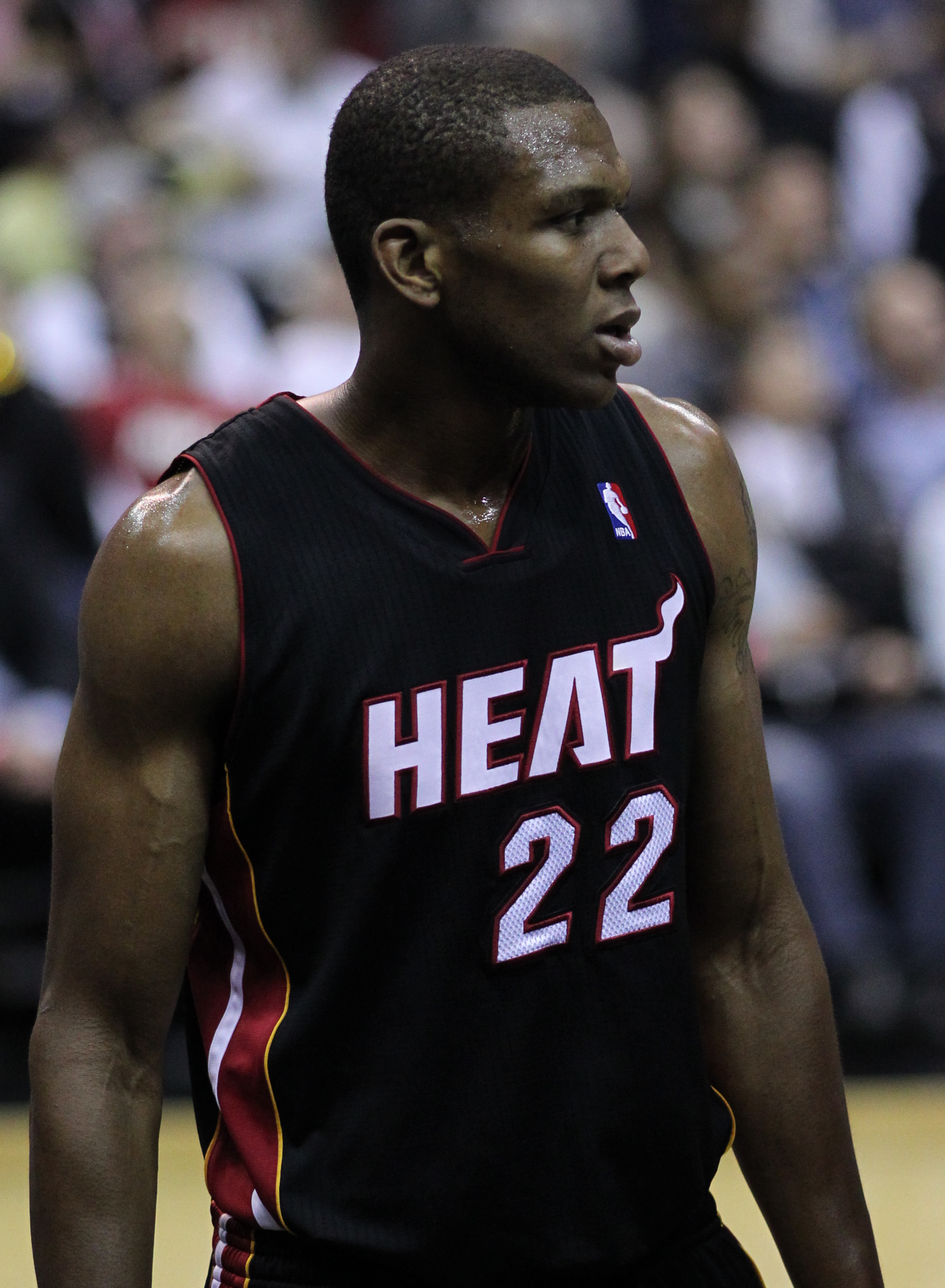 Wizards v/s Heat 03/30/11